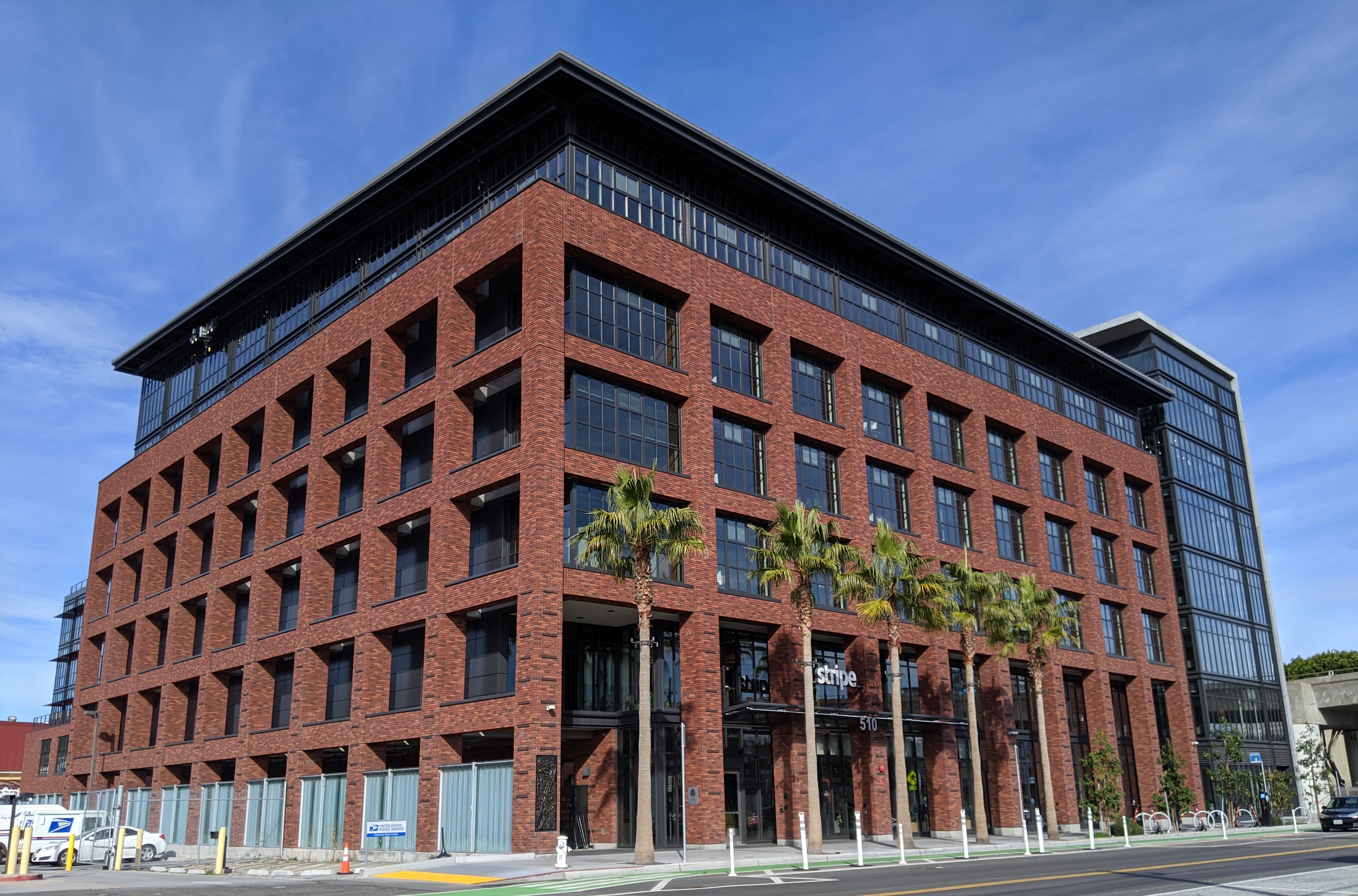 The headquarters office of payment services company Stripe in San Francisco